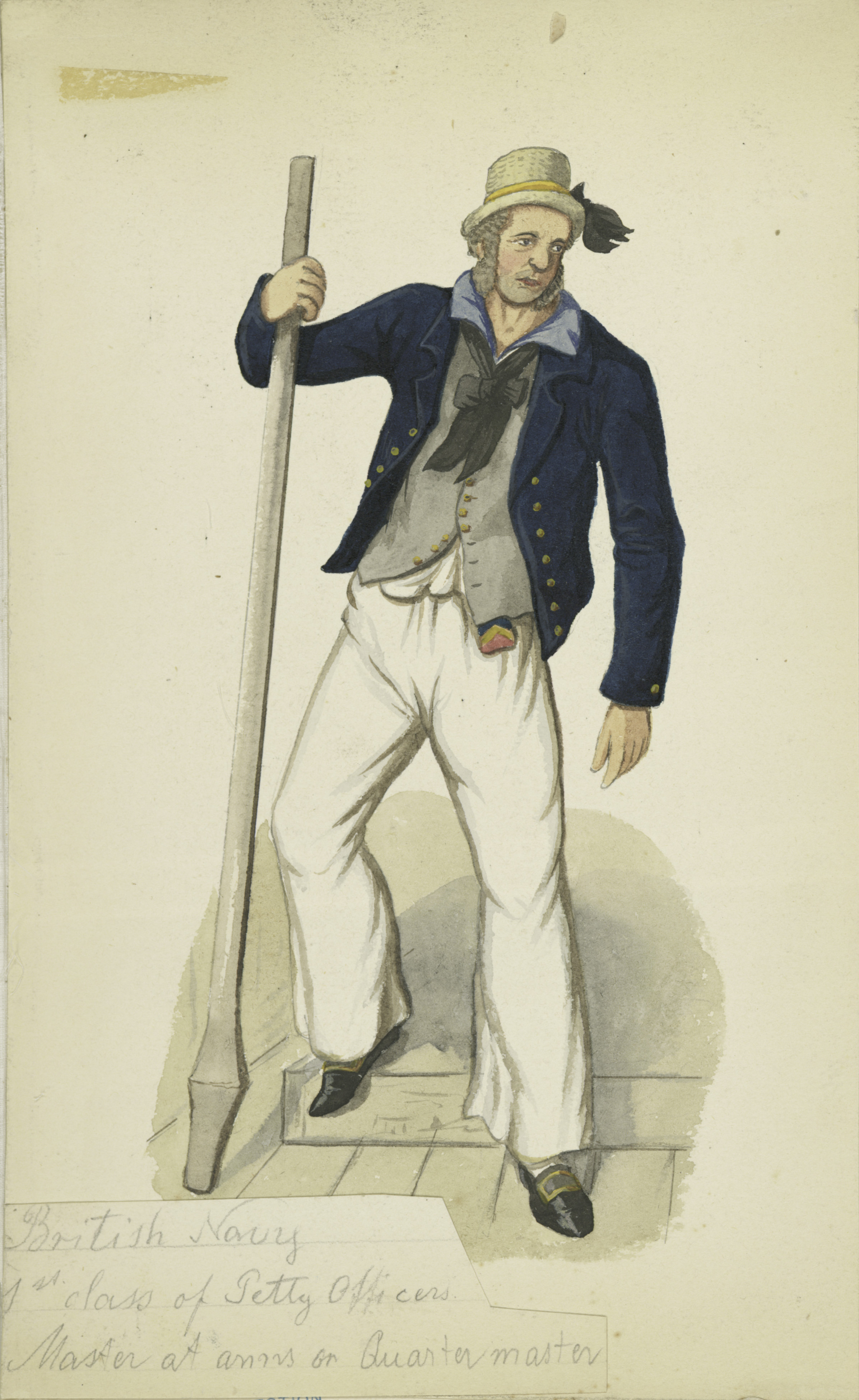 Great Britain, 1817-28.